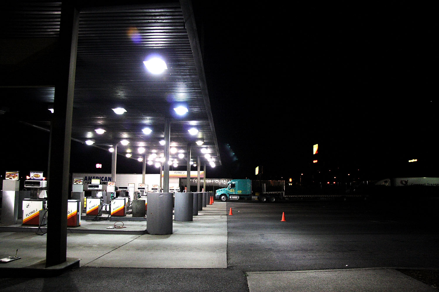 Diesel pumps at a Flying J truck stop